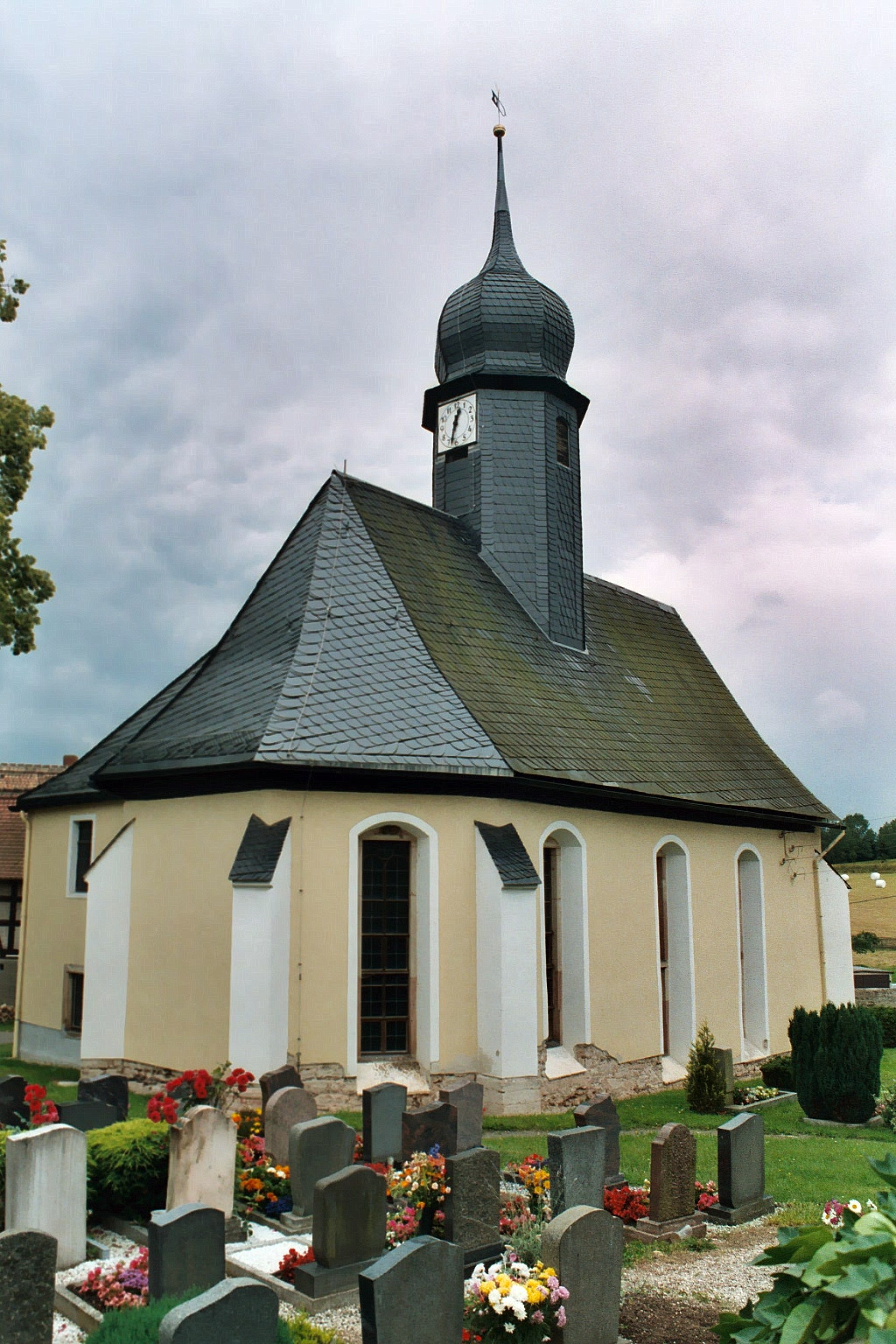 Endschütz (Thuringia), the village church